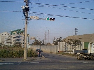 Dai crossing, located at Dai, Asaka city, Saitama,JAPAN.